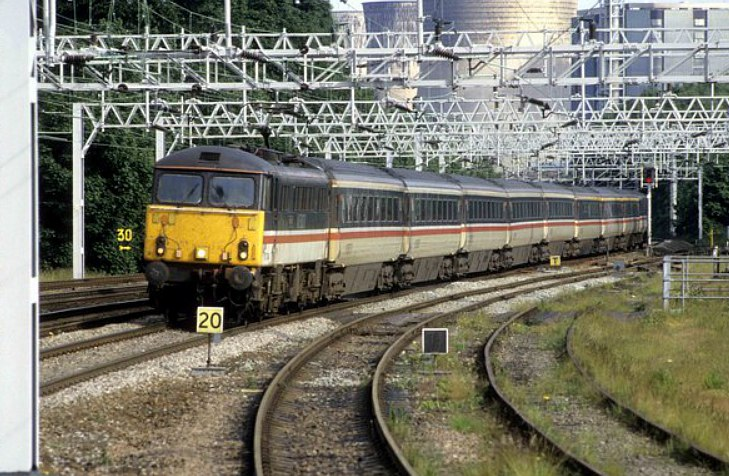 A Euston to Manchester service passes through Rugeley Trent valley station hauled by 87004. Behind can be seen the cooling towers of Rugeley Power station which due to the nature of the telephoto lens appear nearer then what they are.